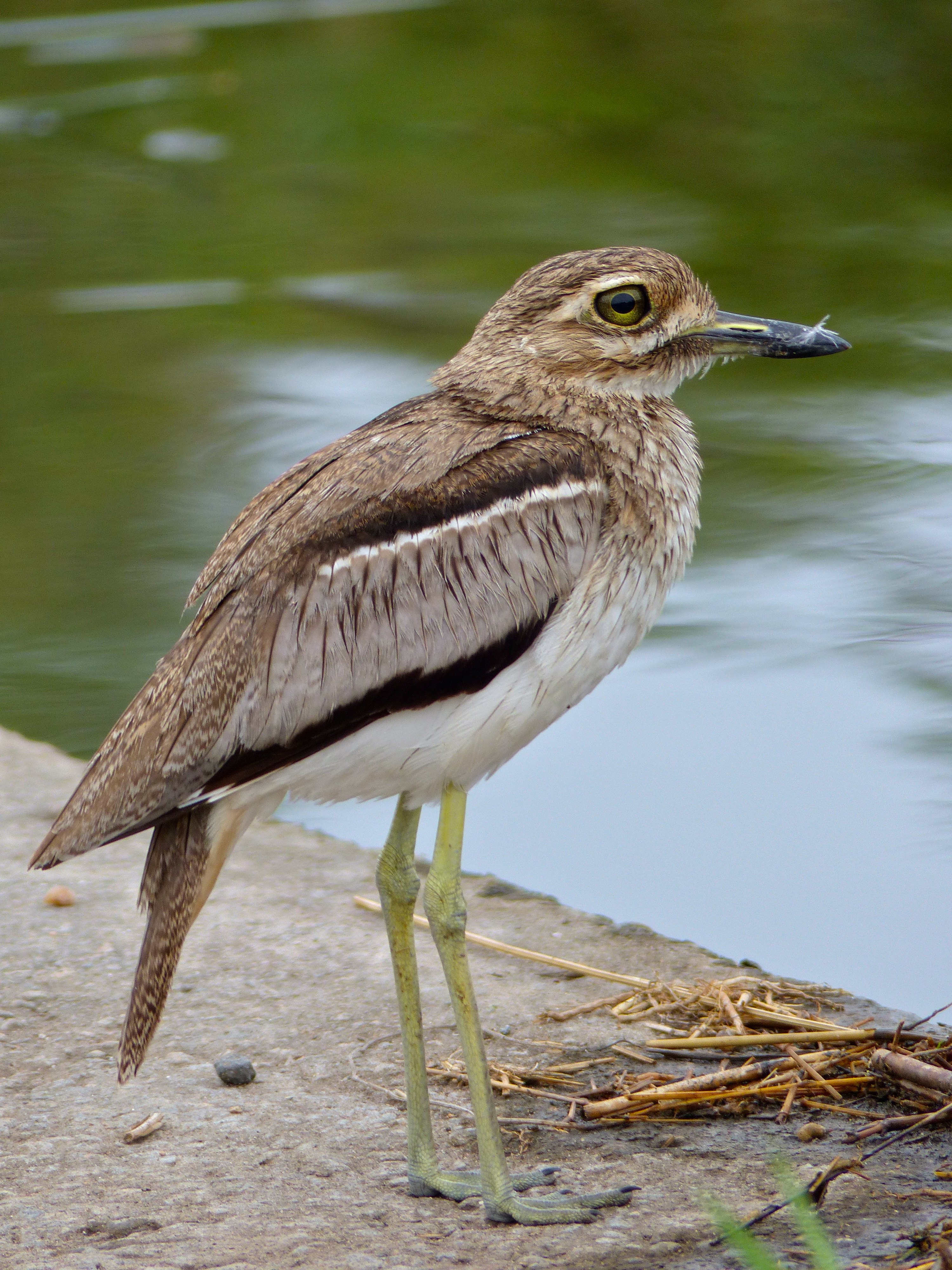 Tsendze Causeway, South of Mopani, Kruger NP, SOUTH AFRICA